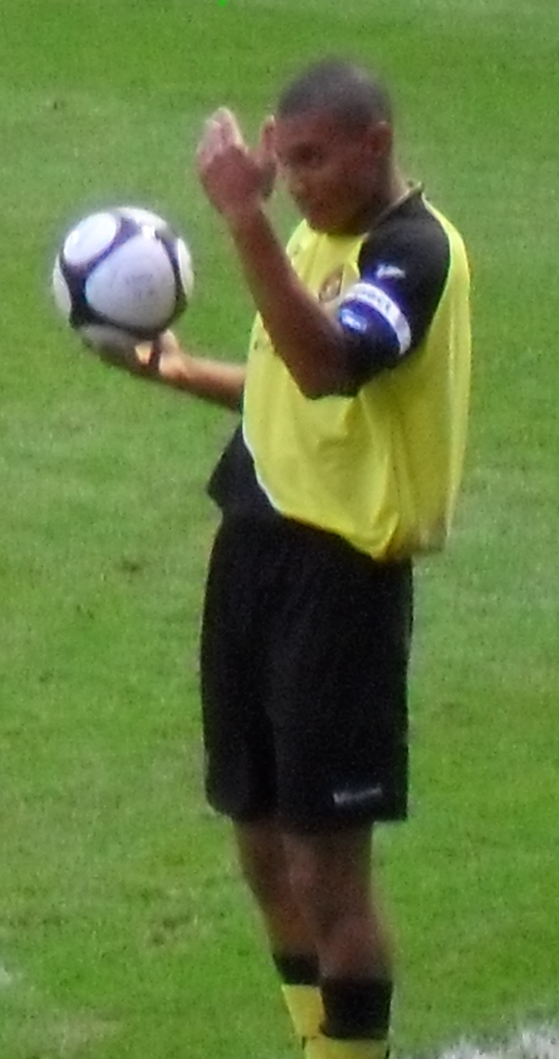 Darius Charles playing for Ebbsfleet United against York City at Bootham Crescent, York on 14 November 2009